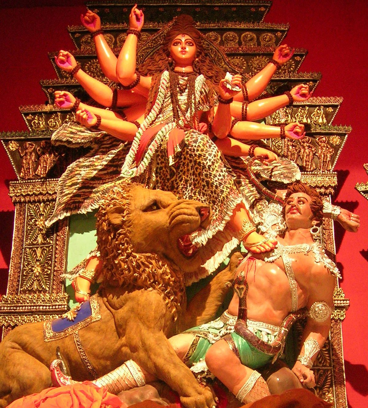 From en-wiki:"Durga, riding on her lion, attacking Mahisasur. I took this image at a Pandal in Cossipore, North Calcutta, on October 17, 2004 (festival Durgapuja). Released into the public domain."